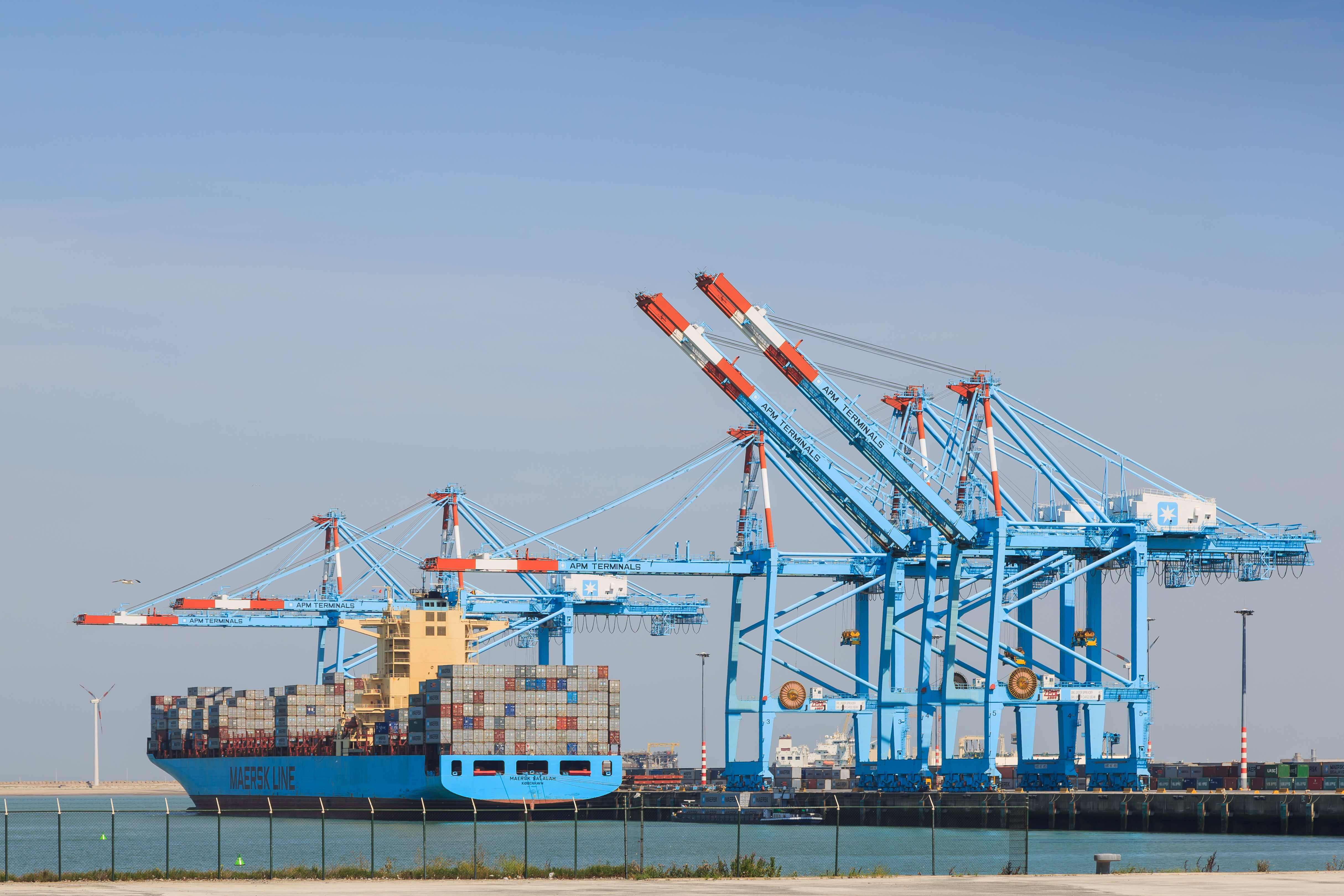 Zeebrugge, Belgium: Portal cranes of the APM Terminals in the Albert II dock of the port of Zeebrugge (Belgium). The ship is the Maersk container ship Salalah.